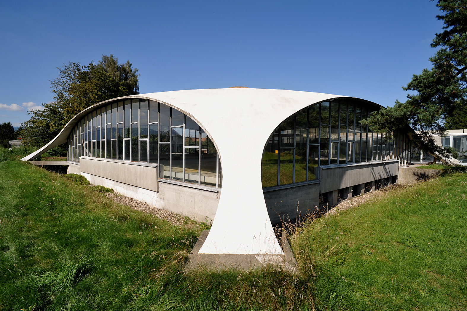 Isler shell, concrete dome roof of a building of the former company Kilcher in Recherswil, built 1965; Solothurn, Switzerland.